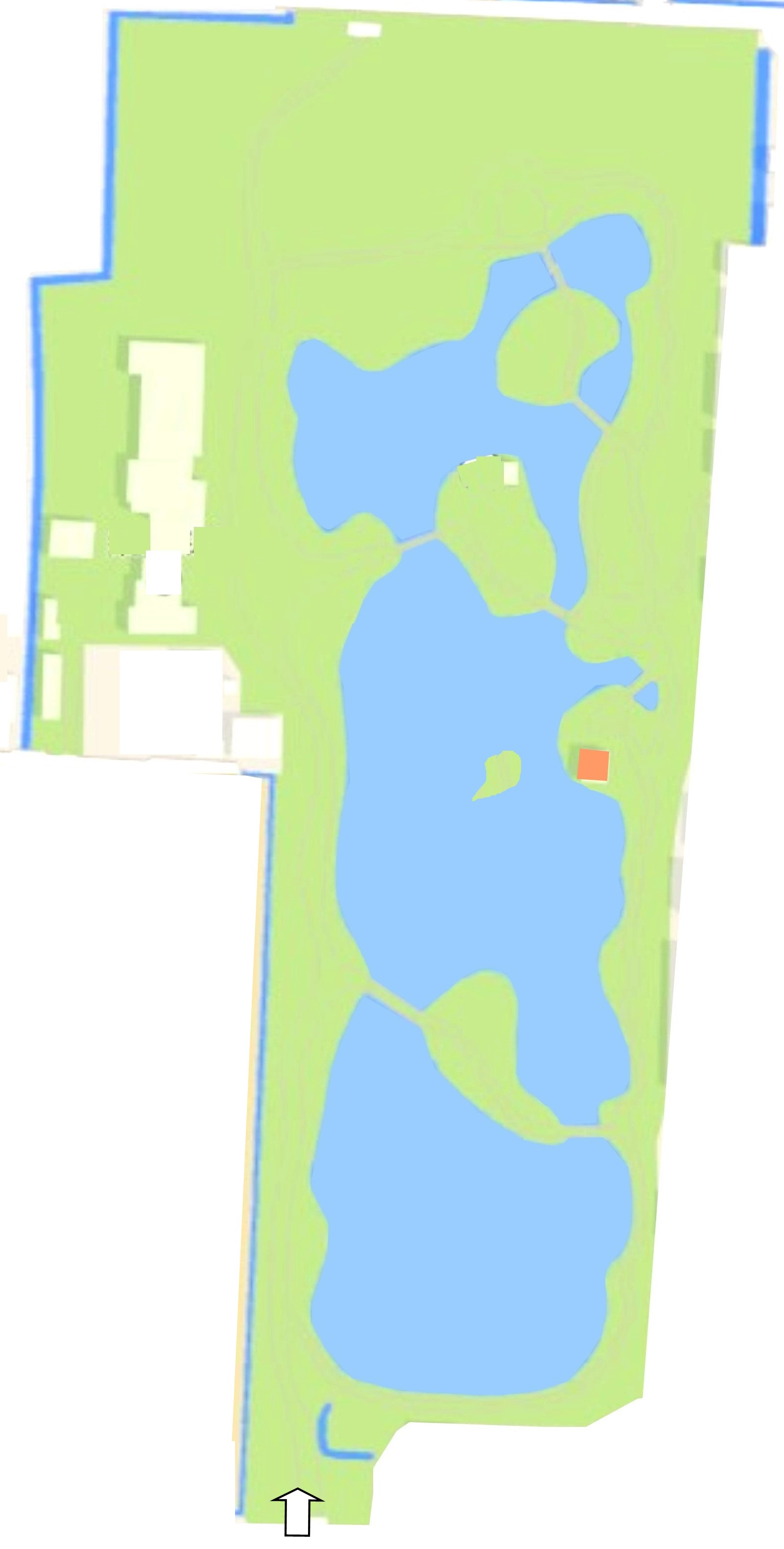 daimyo garde at Tsuyama